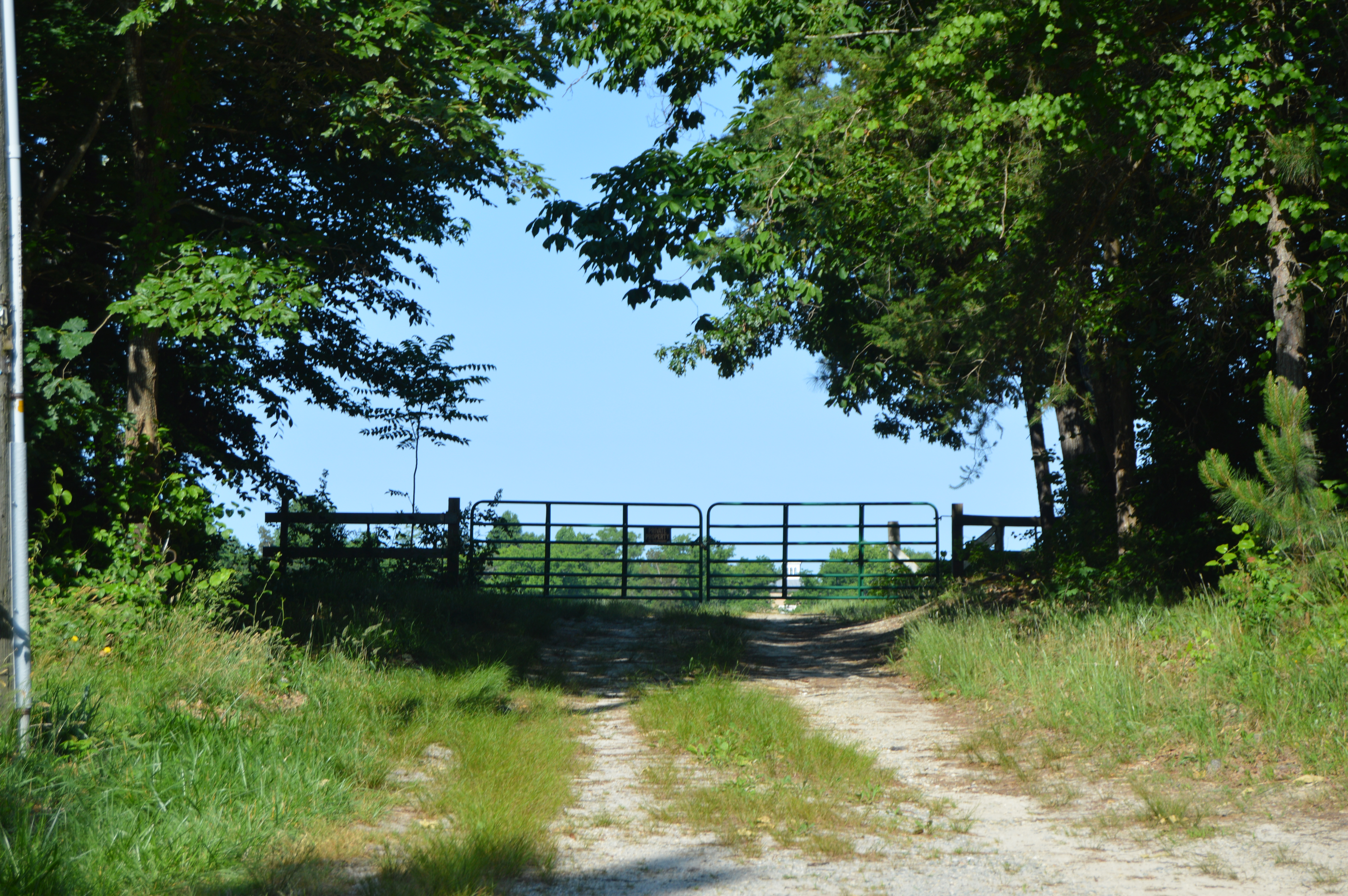 Entrance to the Spring Grove estate (the house is dimly visible through the gate), located along the Mattaponi Trail southwest of Oak Corner in Caroline County, Virginia, United States. Built in 1856, it is listed on the National Register of Historic Places.